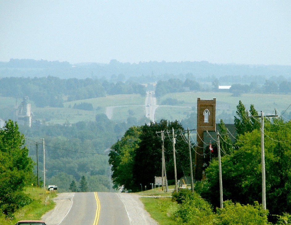 St. John's Anglican Church in Ida, with rural countryside of Cavan-Monaghan Township in background, Ontario, Canada